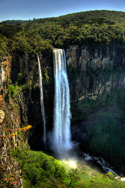 Salto Sao Francisco waterfall on the São Francisco River in Paraná state, southern Brazil.